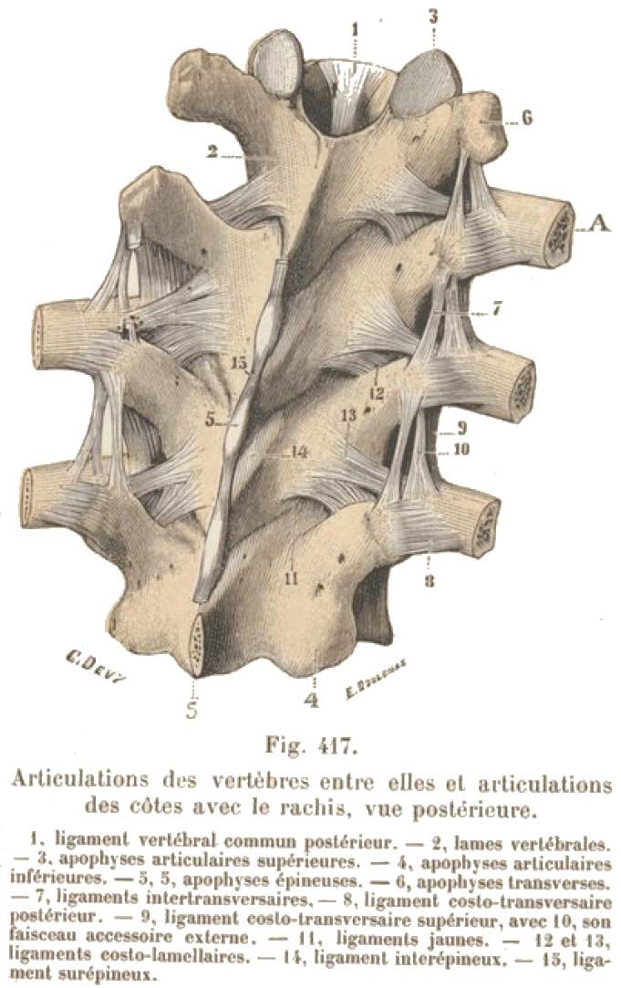 ticulations des vertèbres entre elles et articulations des côtes avec le racliis, vue postérieure. —13,,ligamenvtertébraclommupnostérieu—r. 2,lamesvertébrales. inféraiepuorpeh—sy.5se,a5srt,iculairessupérieure—s. 4,apophysaersticulaires —7,ligamenitnstearptroapnhsyvseeérsspainire-eus8s,,e—s. 6,apophystersansverses. postérieur—. 9,ligamenctosto-translvigearsmaeirnectosto-transversaire faisceaauccessoireexterne.—11,ligamenstuspérieuar,vec10,son ligamentcsosto-lamellai—res1.i-,ligament jaunes.—12et 13, mentsurépineux. interépineu—x.15,ligaveine